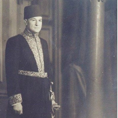 Egyptian poet Aziz Pasha Abaza الشاعر المصري عزيز باشا أباظة